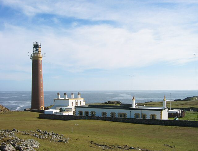 Lighthouse buildings, Butt of Lewis / Rubha Robhanais.